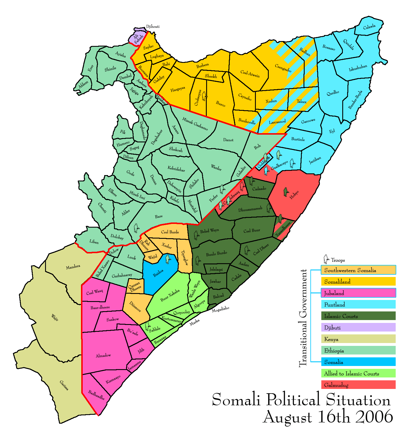 Somali political situation as of August 16, 2006.